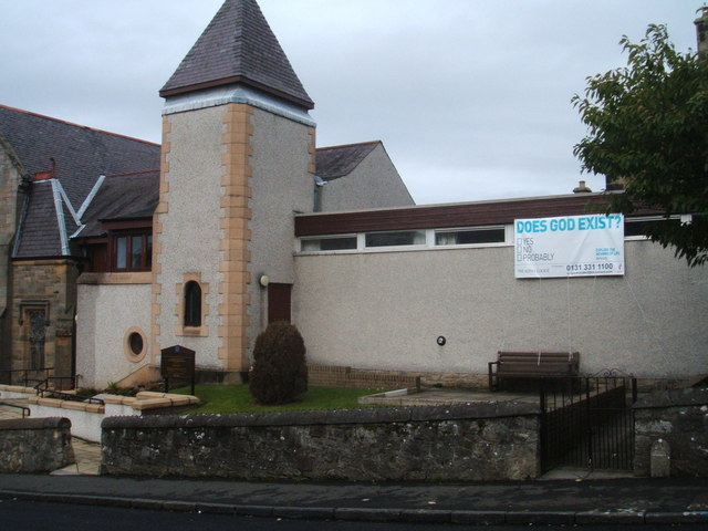 Alpha Course advertised on Church,Queensferry Why no box for "Probably not"?